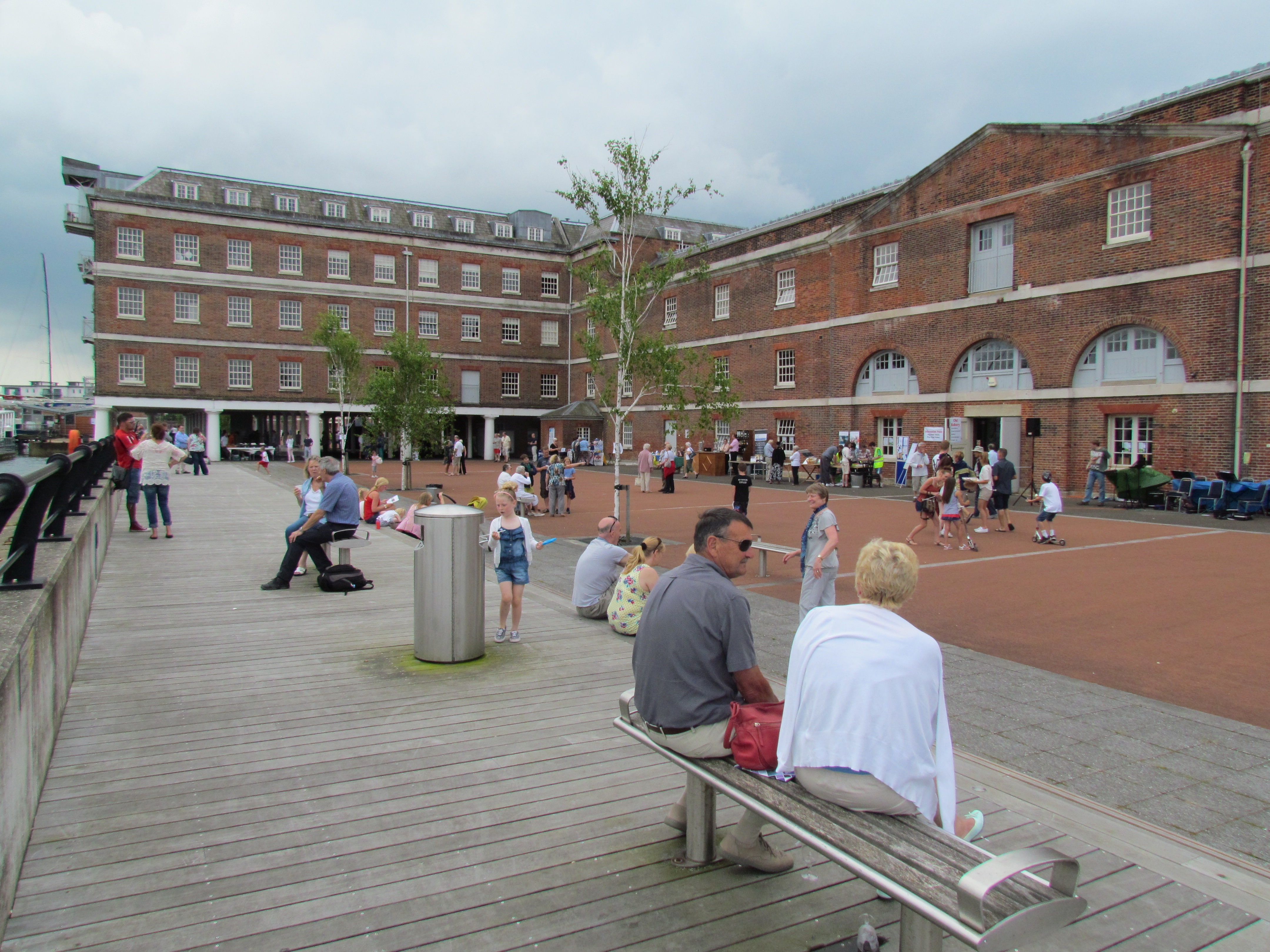 The Granary and Bakery (1828-30) on the Royal Clarence Yard Waterfront are all late Georgian style, red-brick buildings with Grade II* Listed Building status.